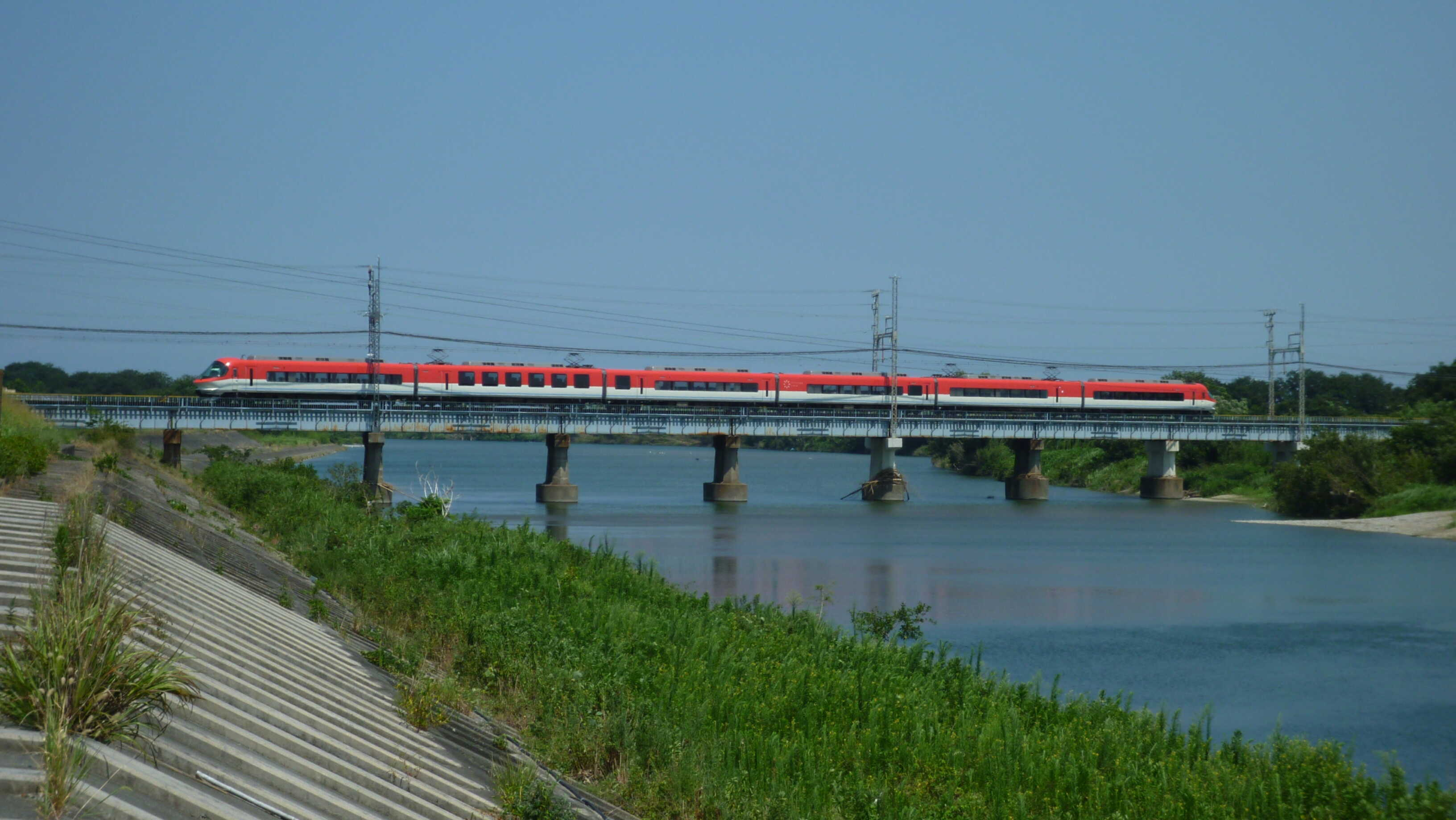 Kintetsu Yamada line Kushida-gawa Railway bridge